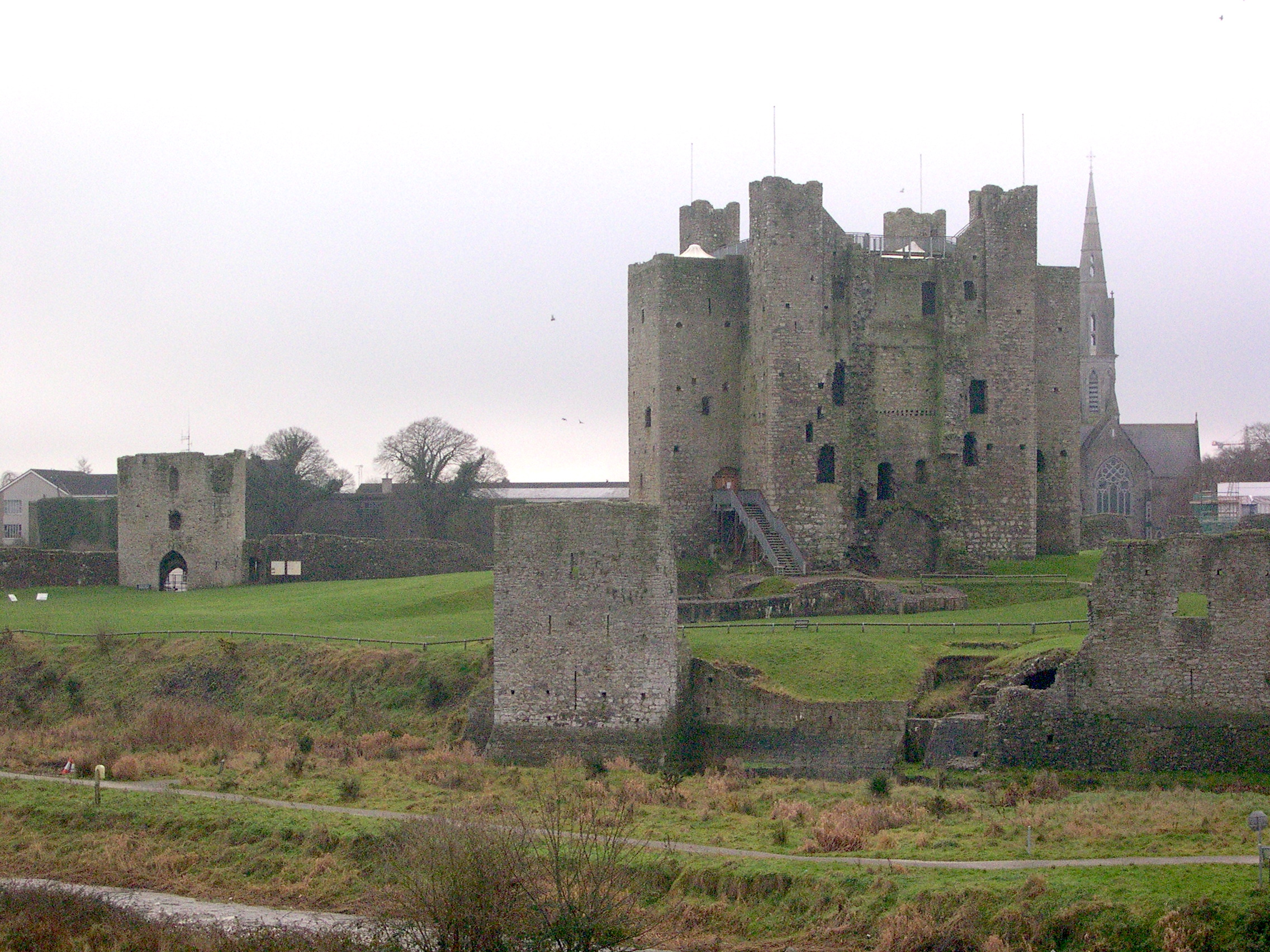 Trim Castle